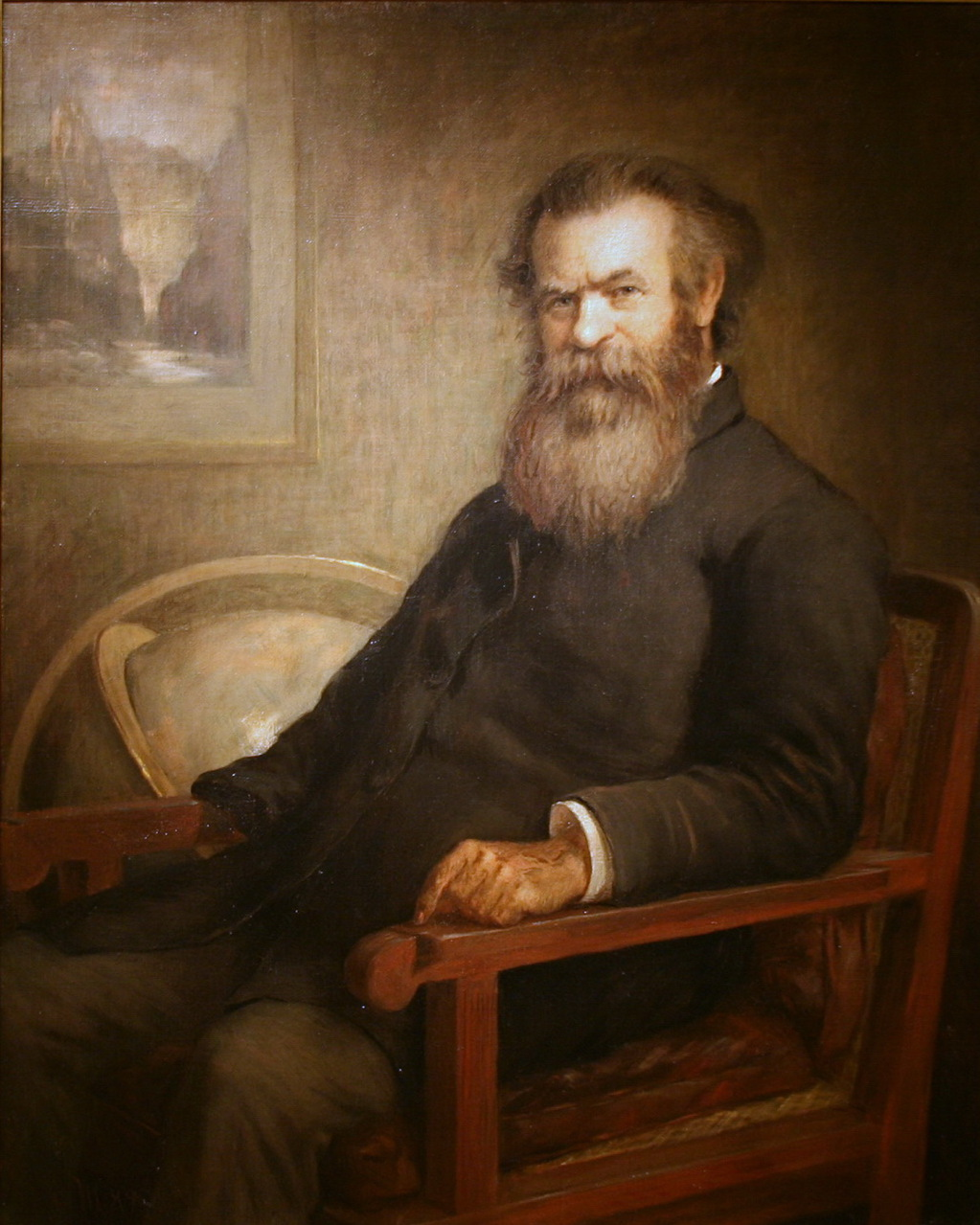 Oil on canvas painting of John Wesley Powell; size without frame 120.3×95.9 cm.